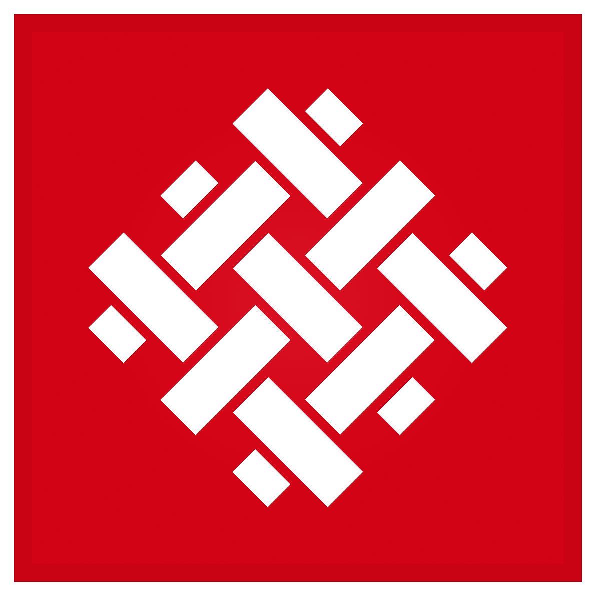 US Army 6th Army Group Shoulder Sleeve Insignia